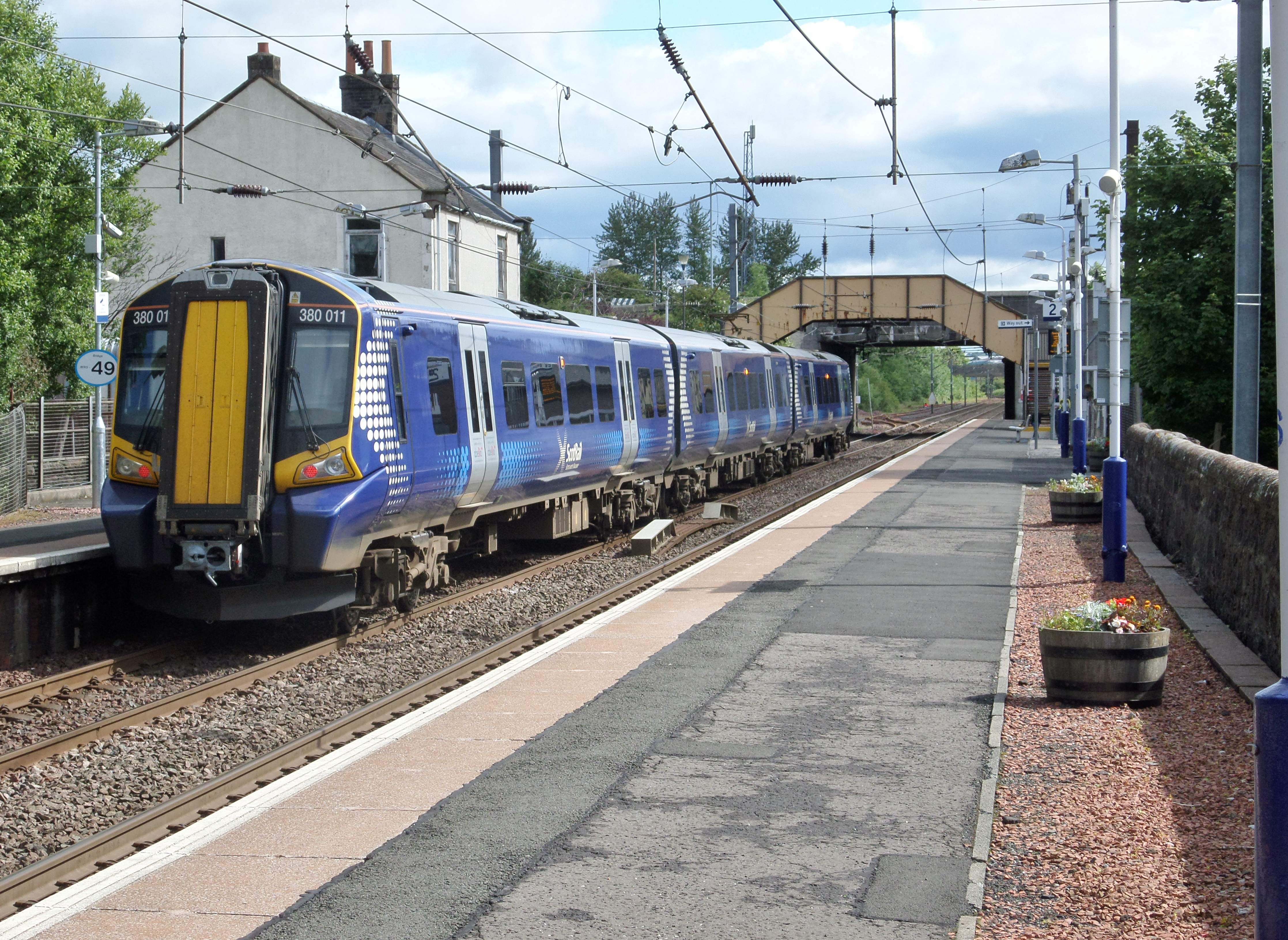 Glengarnock railway station with a train to Glasgow on the electrified old G&SWR line from Glasgow to Ayr and Stranraer with a branch to Largs.